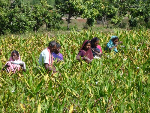 Gulbakawali cultivation in Chhattisgarh Plains